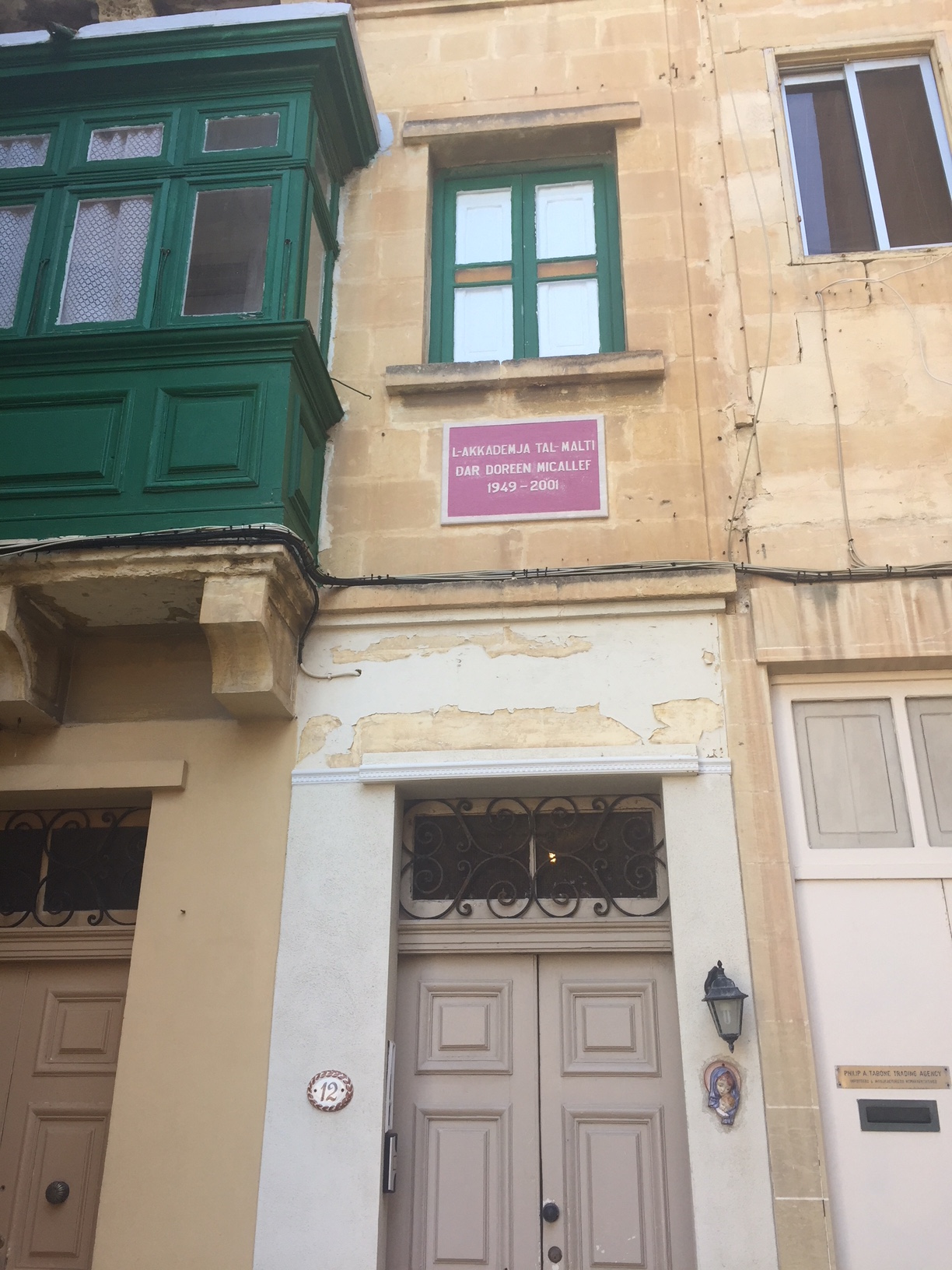 general view of 12 Triq Sant' Andrija, Valletta former home of Maltese poet Doreen Micallef that now houses Akkademja tal-Malti